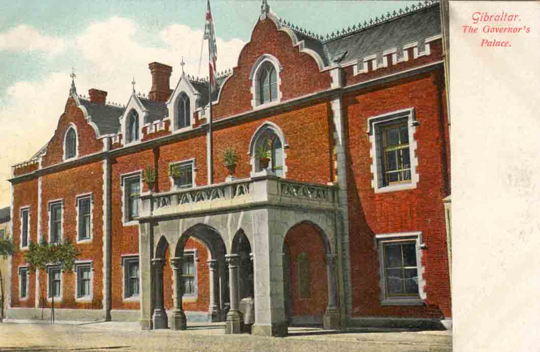 Old postcard of Gibraltar depicting The Convent as viewed from Convent Place.